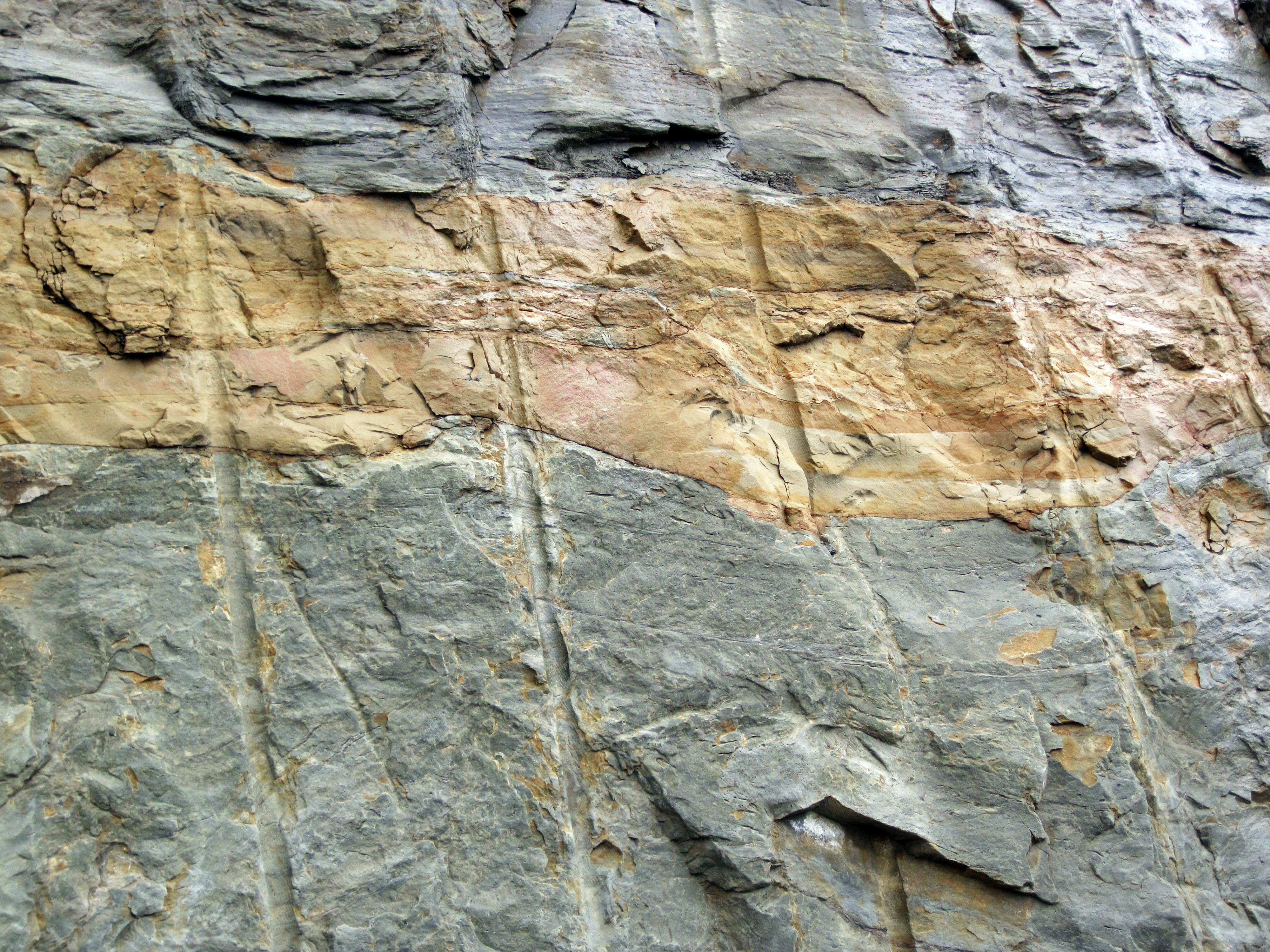 Seismogenic folding in the Mississippian formation of Ohio, USA. This is the Borden Formation, a significant unit in the Lower Mississippian of Kentucky, Indiana, and Ohio. It represents an ancient deltaic succession. Prodeltaic, delta front, and delta top deposits are present in the Borden. Named members in eastern Kentucky and southern Ohio include (from bottom to top) the Henley Member (or Henley Bed), Farmers Member, Nancy Member, Cowbell Member, and Nada Member. Seen here is an interval of soft-sediment deformation within the Cowbell Member. The unit's bedding at this outcrop is folded and chaotic. Such horizons have been called "seismites" or "flow rolls". Seismites are intervals of sedimentary rocks that have been disturbed and deformed by ancient seismic events (earthquakes). In this case, sediments were disturbed, probably liquefied, and moved/flowed. Sediment liquefaction often accompanies significant earthquakes in modern times. Stratigraphy: Cowbell Member, upper Borden Formation, Lower Mississippian. Locality: Portsmouth Bypass roadcut, west of Rose Hill & north of Thomas Hollow Road, northern Scioto County, southern Ohio, USA.